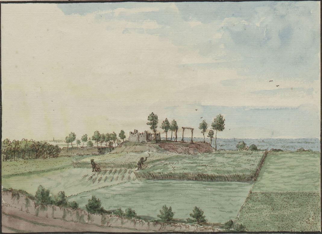 Drawing by Hendrik van Wel (c. 23 x 17 cm) from the album Forty-six landscape drawings of Netherlandish towns and villages Royal Library of Belgium Native nameFrench: Bibliothèque Royale